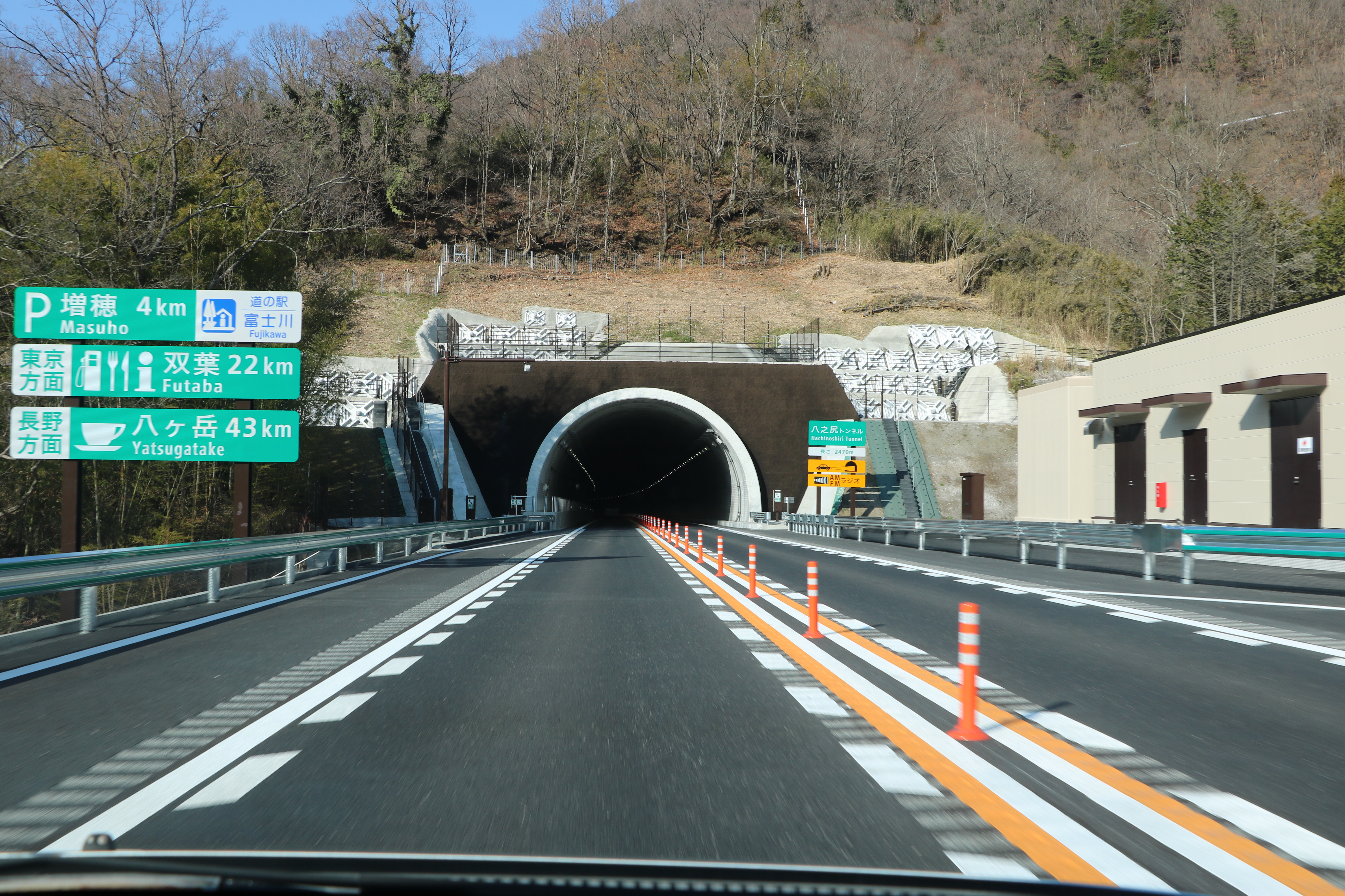 Chubu Odan Expressway Hachinoshiri Tunnel South Entrance.